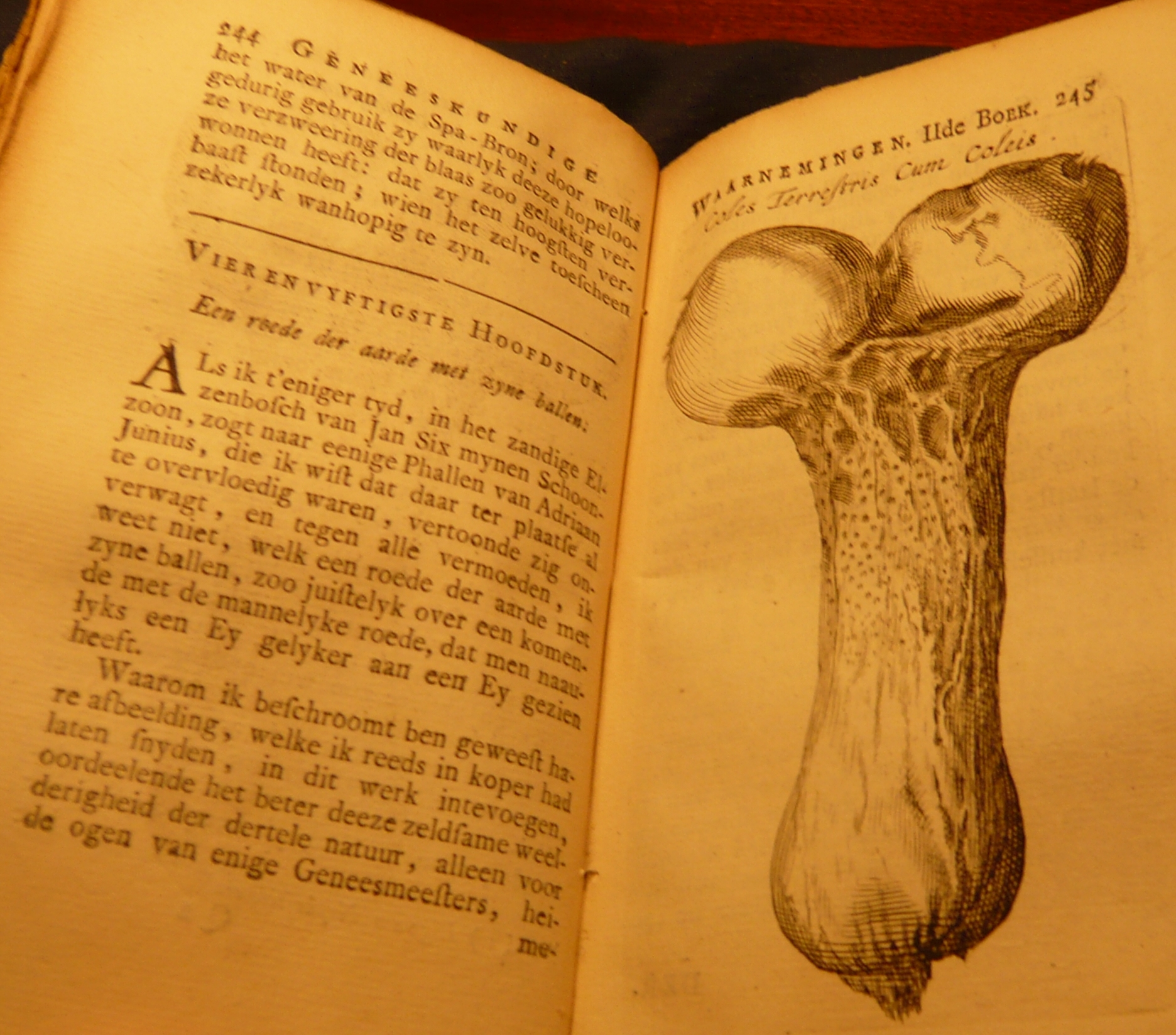 This is the "Roede der aarde met zyne ballen" page 245 of the book Geneeskundige Waarnemingen, the 1740 version of Observationes Medicae from 1641, translated into Dutch from the Latin original and embellished by Ludovicus Wolzogen. The book contains translations of medical notes by Tulp, but has some extra additions and plates. This plate was added as the 54th chapter, but did not exist in the earlier Latin version. This book was published a century later than the original, and both were quite popular.